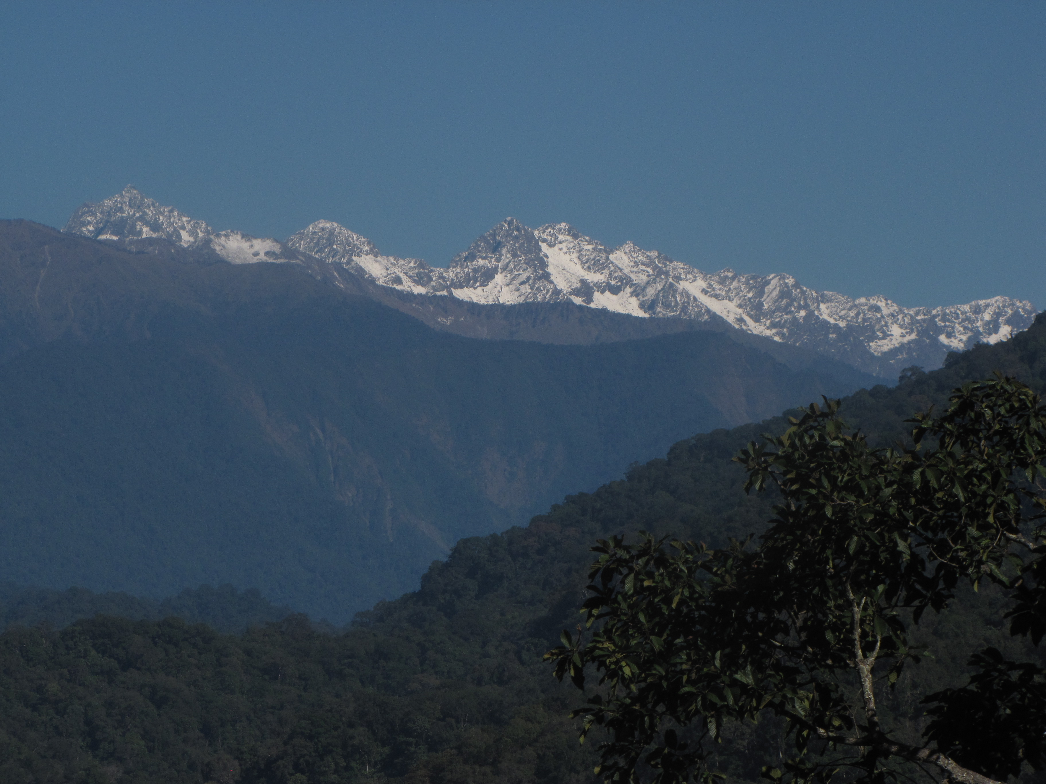 Landscape photo taken before Deban in Namdapha Tiger Reserve, Arunachal Pradesh, India